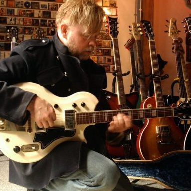 The image shows Anthony J. Resta playing a guitar.